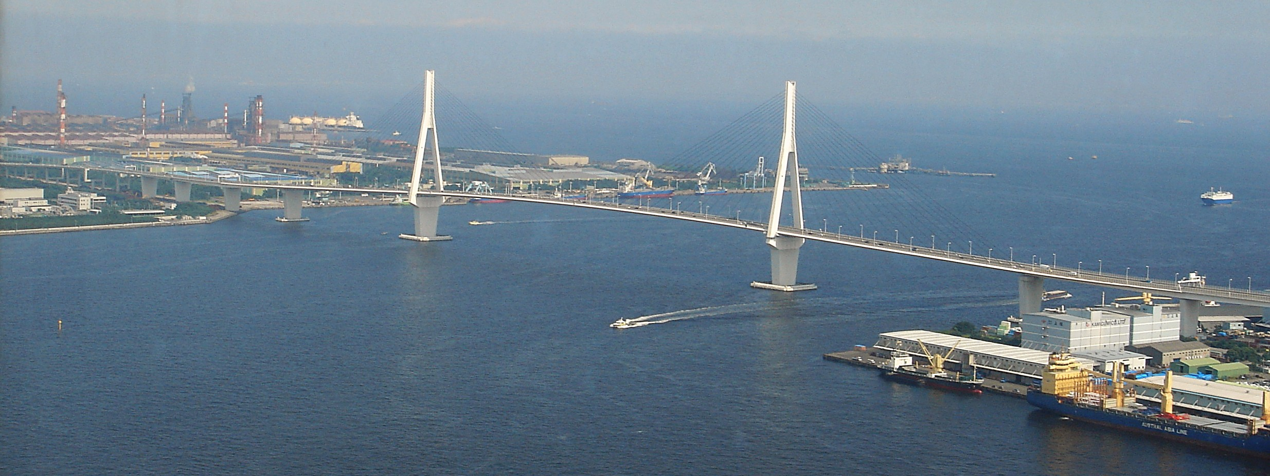 Tsurumi Tsubasa bridge, bay shore route, Metropolitan Expressway Co., Ltd. Yokohama, Japan